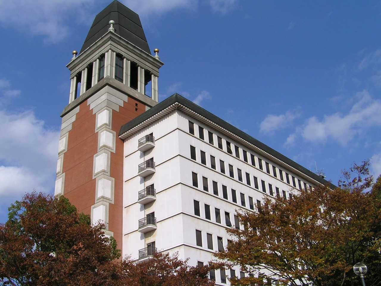 Main building of Kurashiki city office